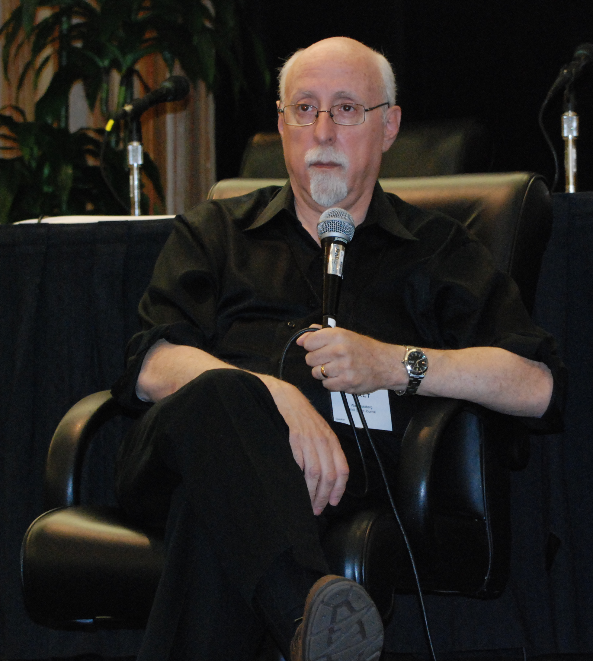 WSJ and AllThingsD editor Walt Mossberg at TPS09 (cropped)